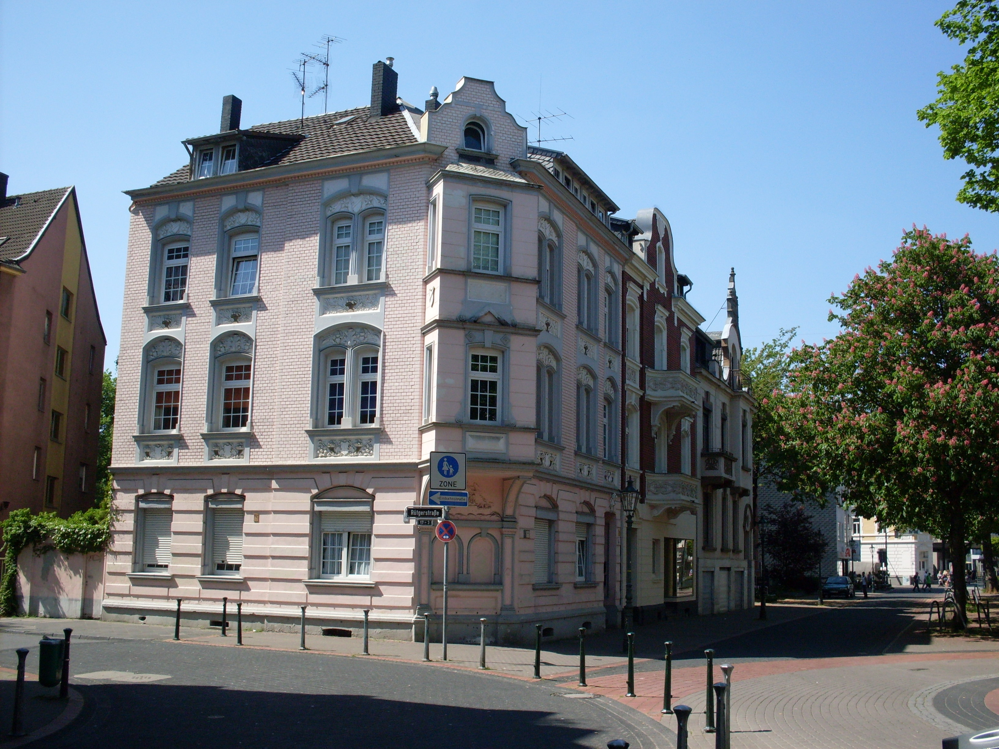 Duesseldorf, Borough of Eller, Gertrudisplatz